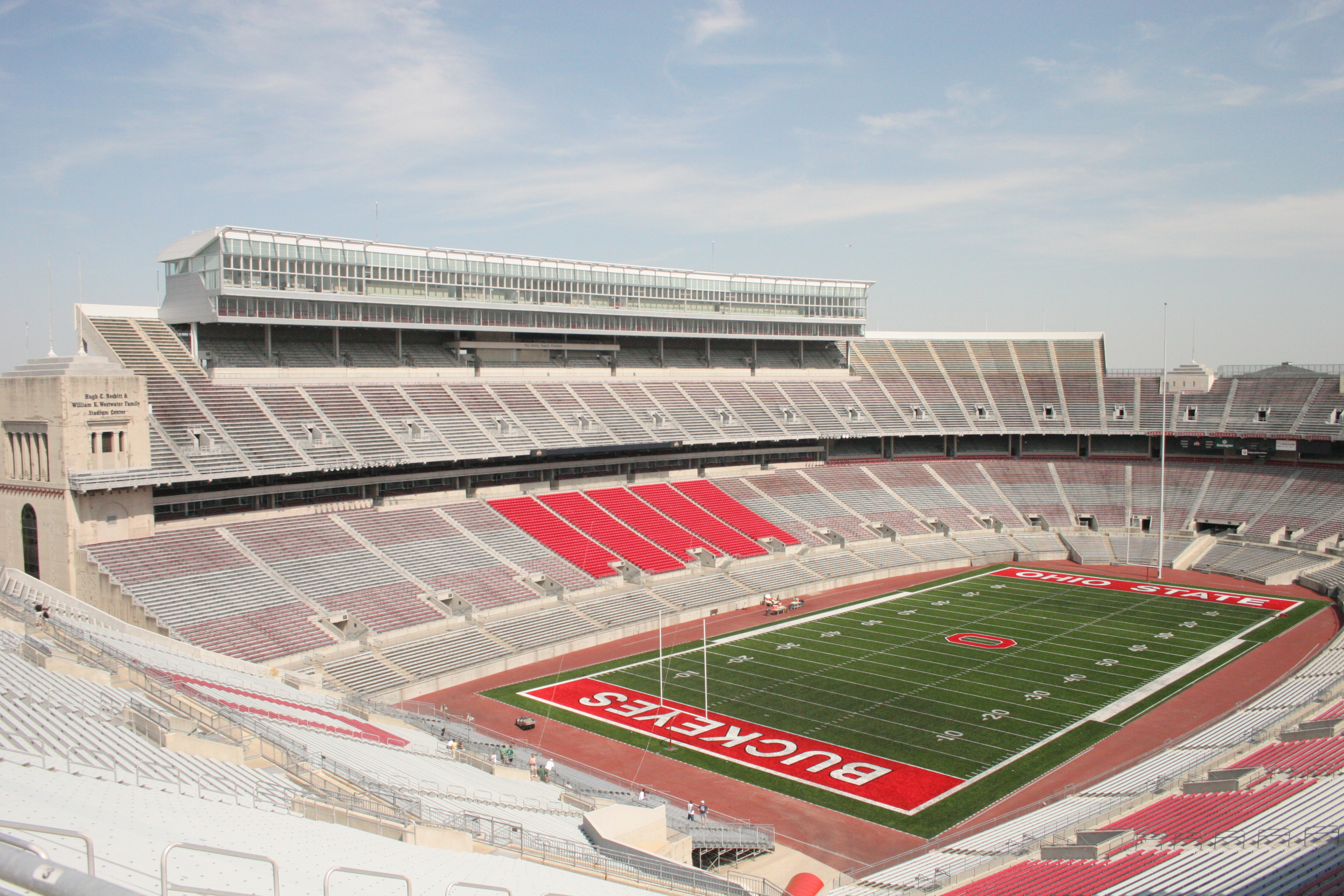 Empty Ohio Stadium